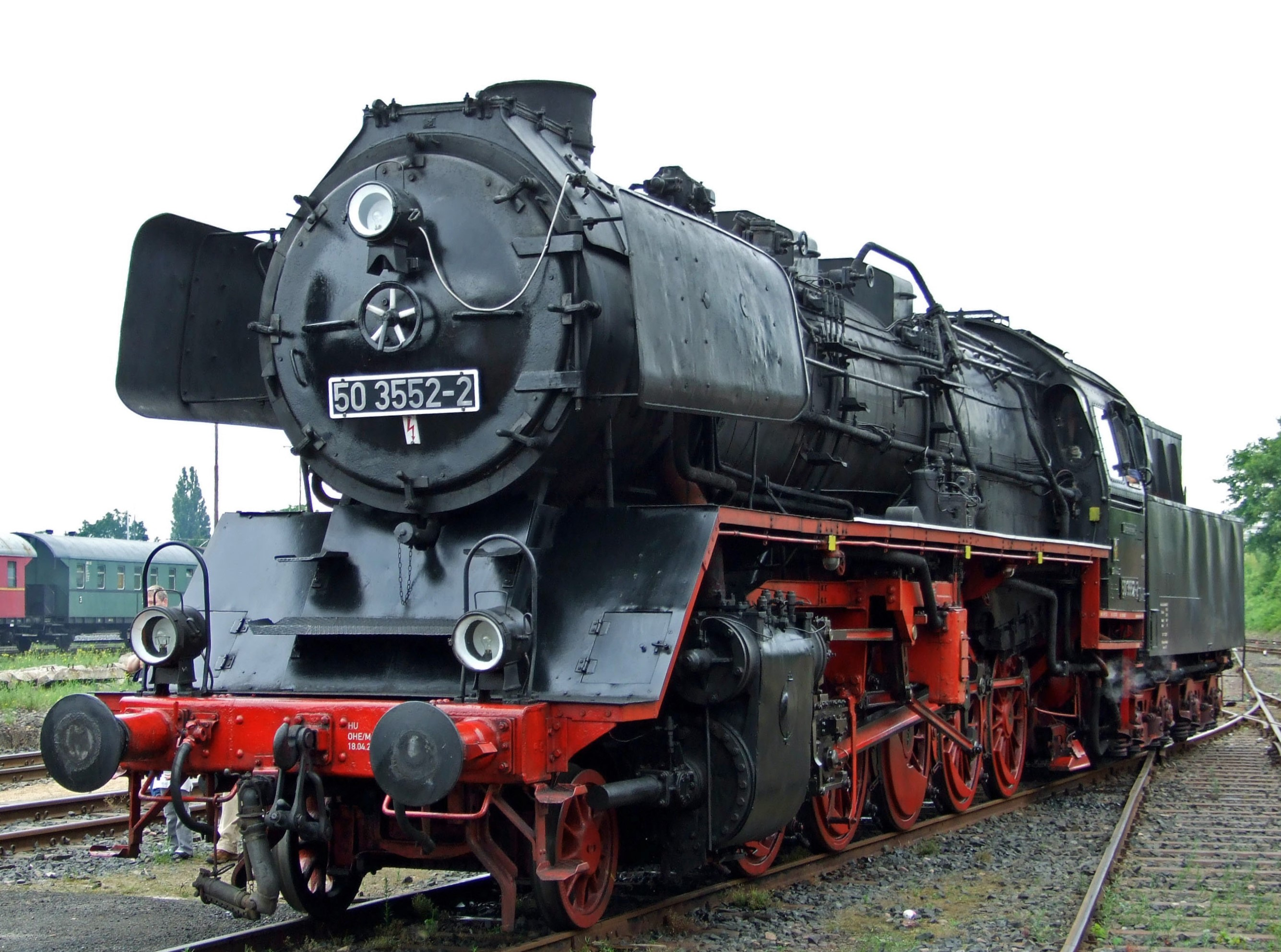 Steam locomotive 50 3552-2, during habour celebration in 2009, at Osthafenbahnhof in Frankfurt am Main - Ostend.